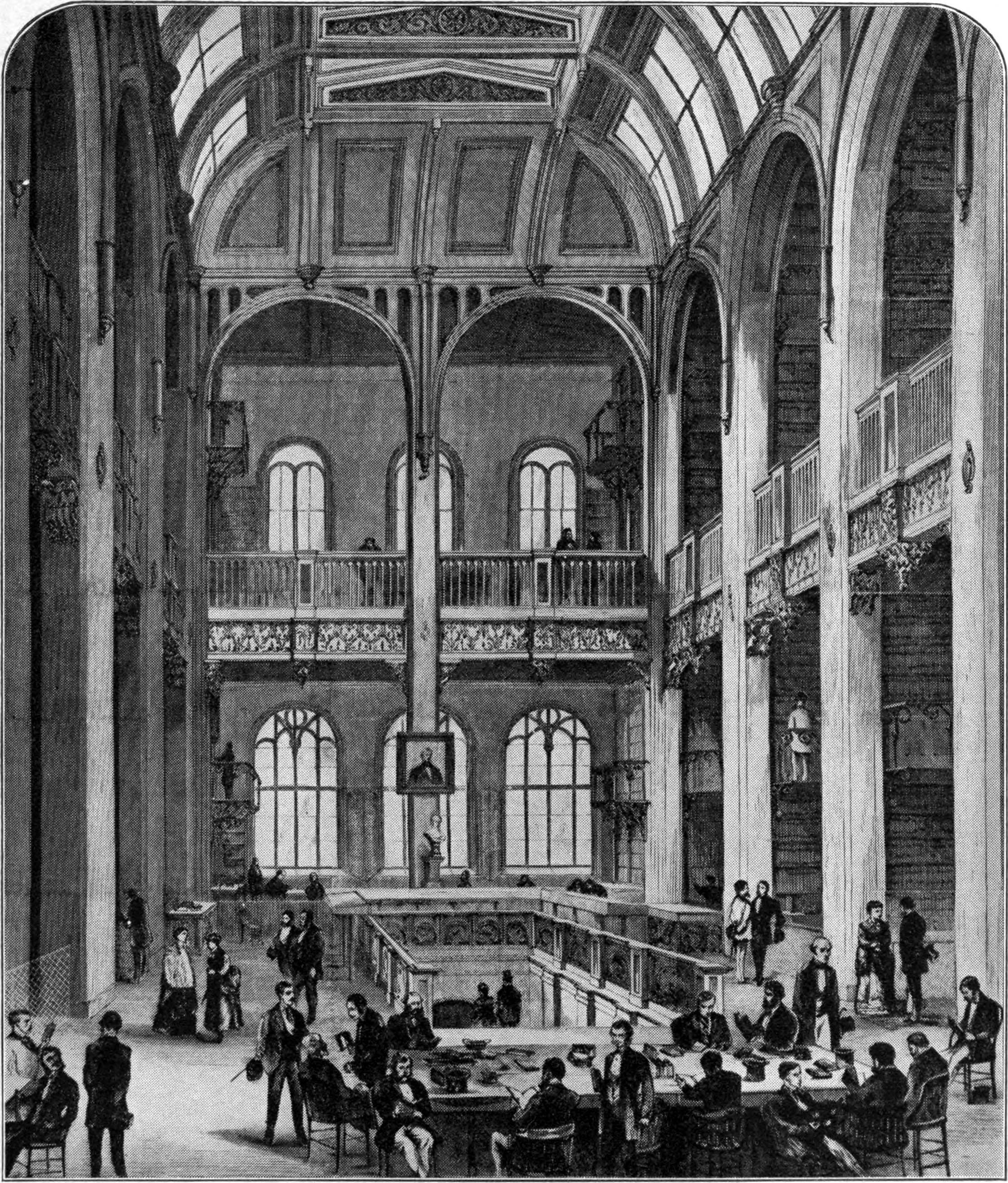 Illustration of the sunny South Hall on the second floor of the Astor Library building.